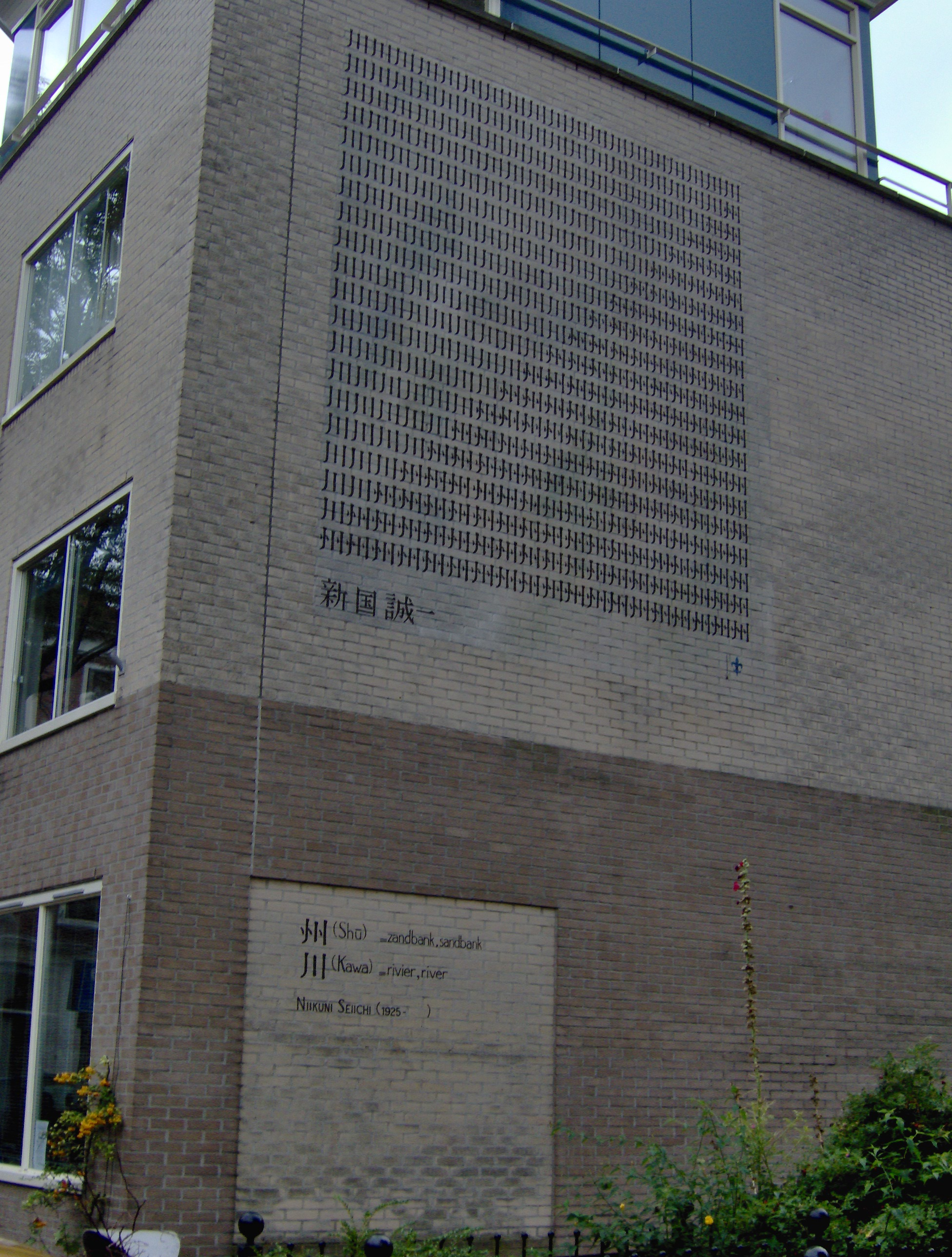 The poem River/sandbank of the Japanese poet Seiichi Niikuni (1925-1977) on a wall of the building at Pieterskerkgracht 17 in Leiden, The Netherlands